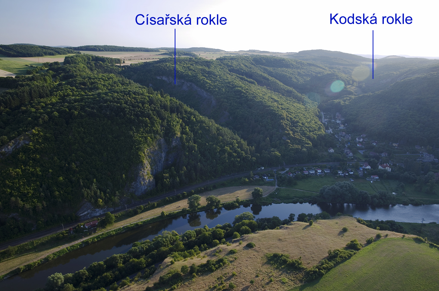 Aerial view of Cisarska and Koda gorge, Bohemian Karst.